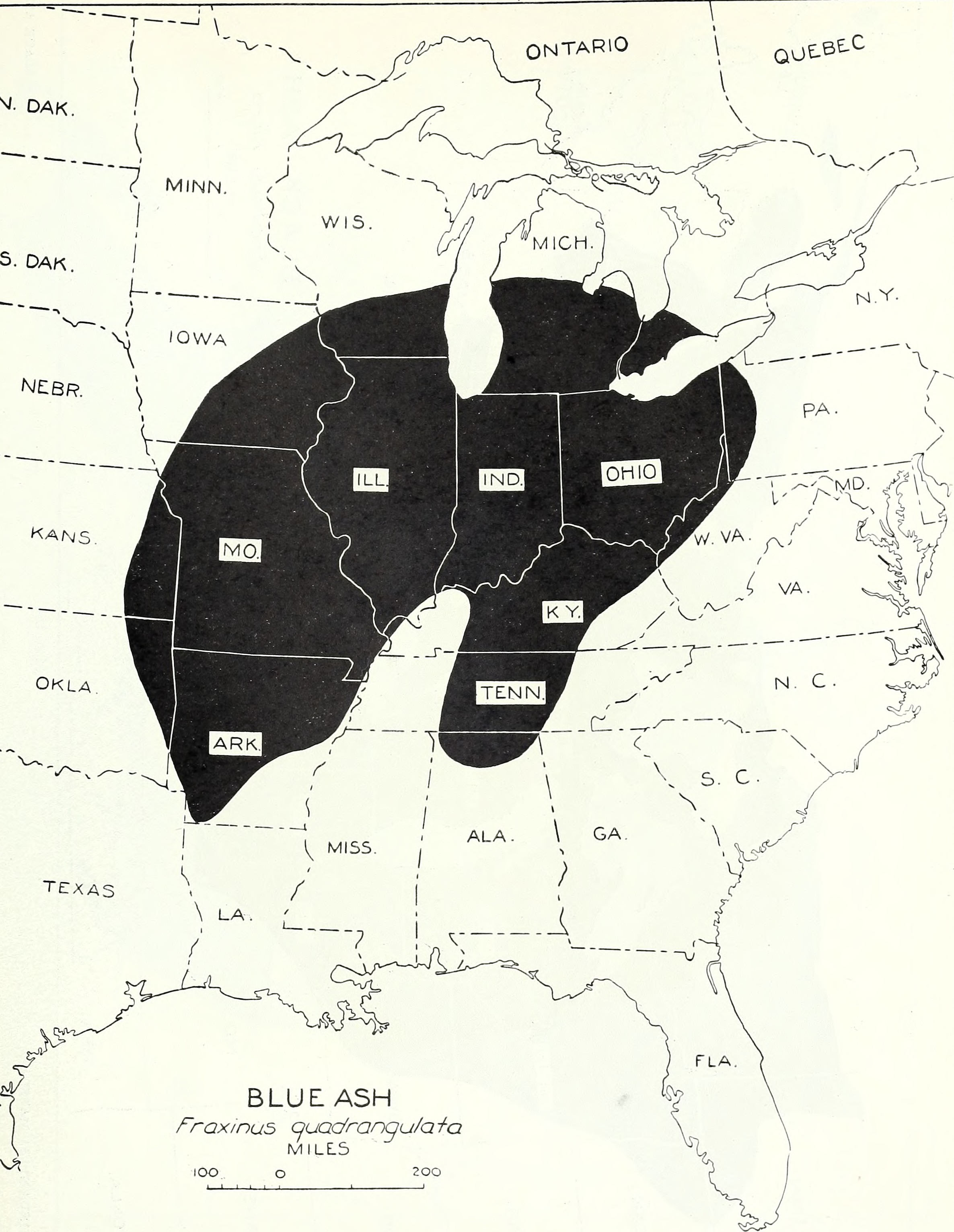 Title: The distribution of important forest trees of the United States Year: 1938 (1930s) Authors: Munns, E. N. (Edward Norfolk), 1889-1972 Subjects: Forests and forestry; Trees Publisher: Washington, D. C. : U. S. Dept. of Agriculture Text Appearing Before Image: 167 \ QO^C N- DAK. S. DAK NC8R. Text Appearing After Image: FRAXINUS QUADRANQULATA MICHAUX Map 163 BLUE ASH